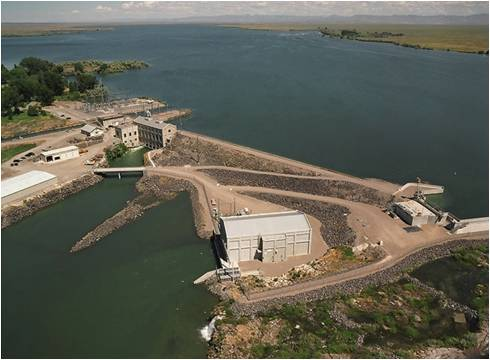 The Minidoka Dam and power plant in 2005.